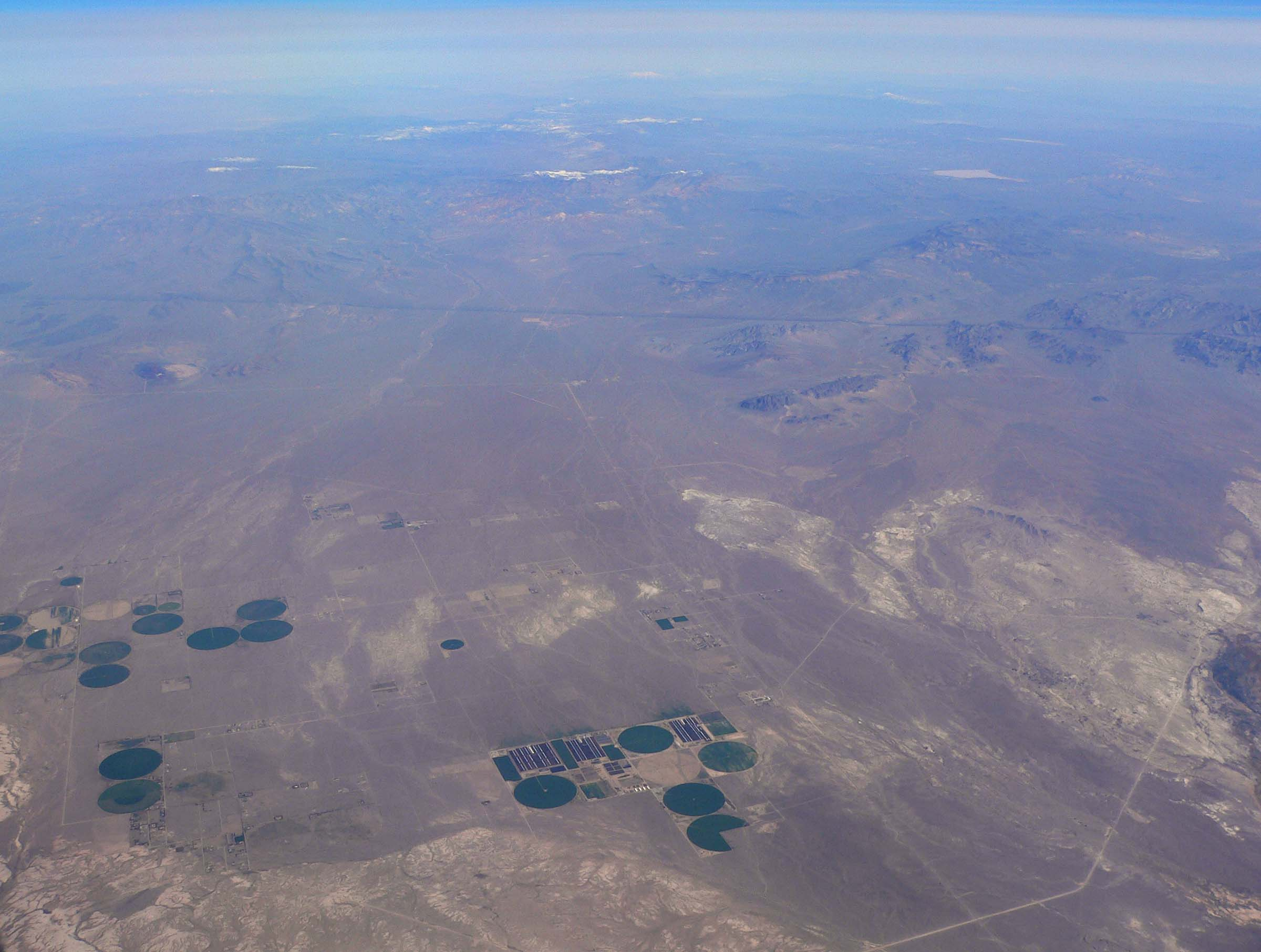 Aerial view of Amargosa Desert, southern Nevada